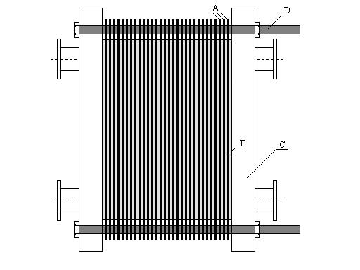 Plate heat exchanger LS